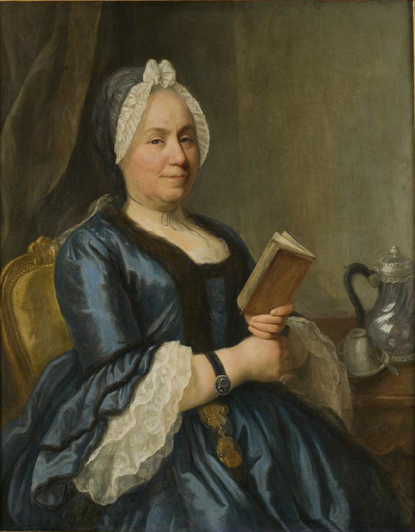 Portrait de Louise Raba arrivée à Bordeaux avec Mère des Frères Raba alias